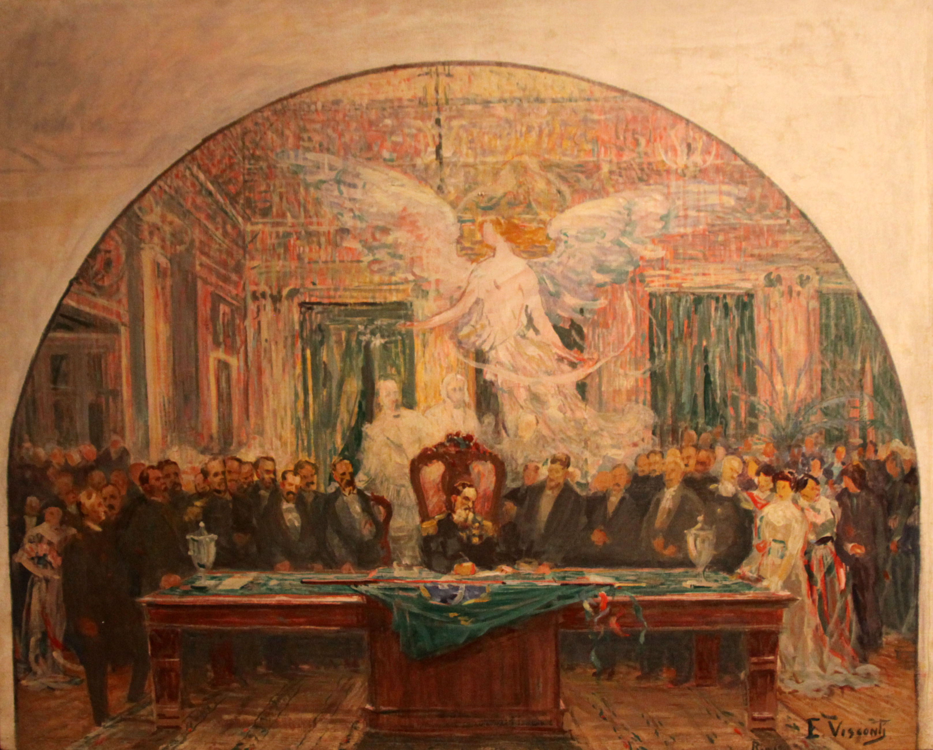 Painting Swearing-in of President Deodoro da Fonseca. Artist Eliseu Visconti. First study for Tiradentes Palace, 1925, Oil on canvas, 81 x 100 cm, Collection Museu Histórico e Artístico do Estado do Rio de Janeiro, Niterói, RJ.